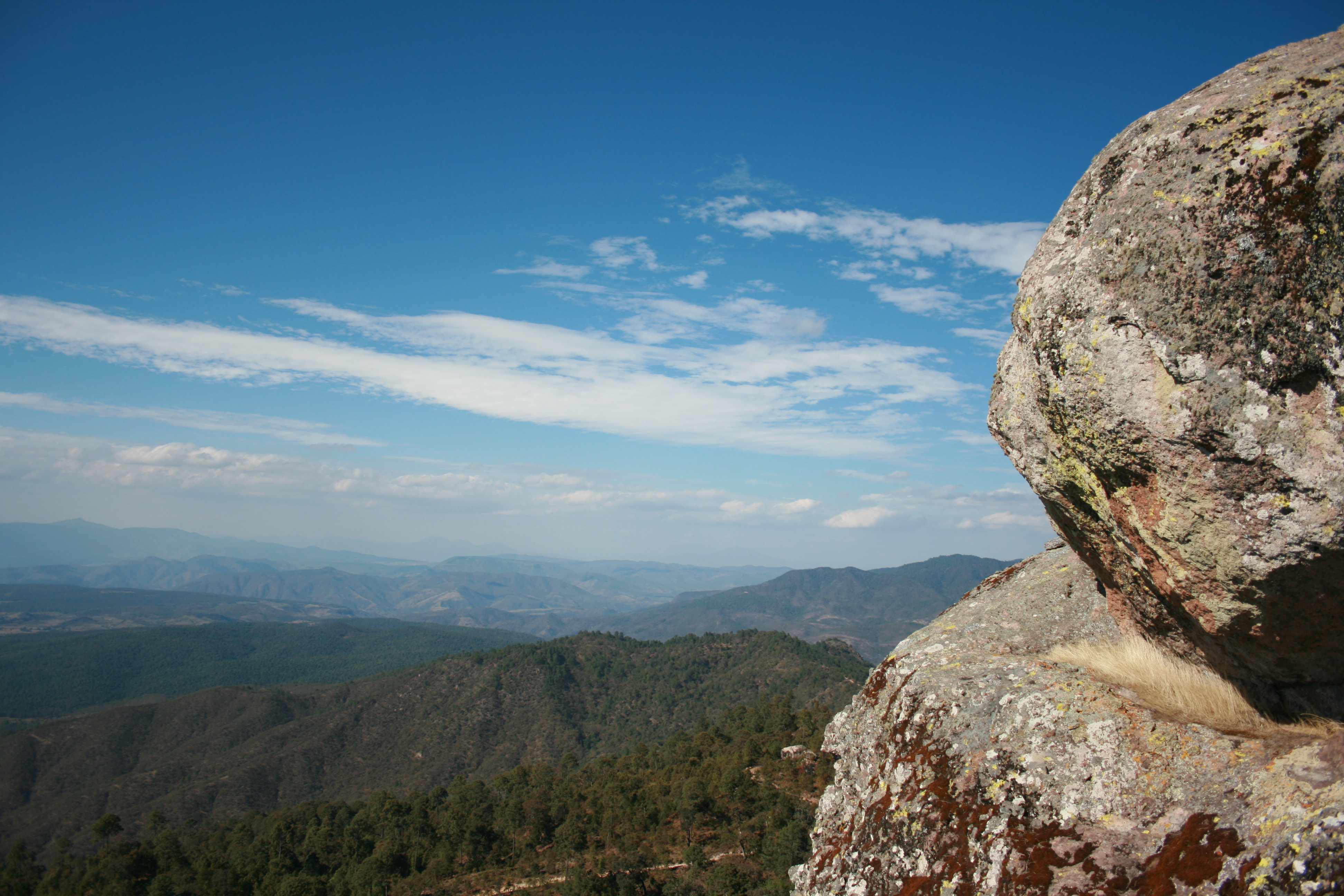 Fraile gordo Rock